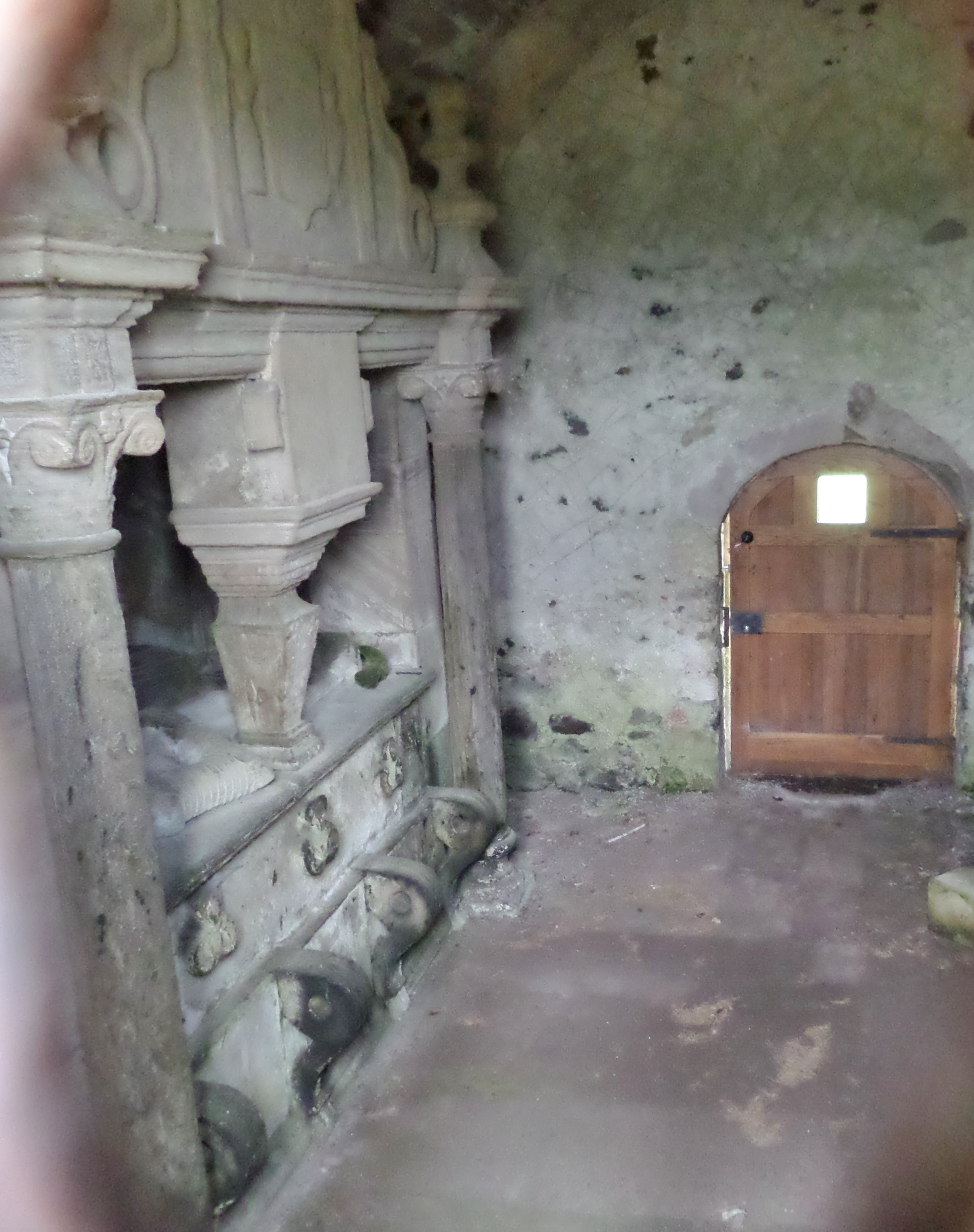 Bargany Aisle, Old Ballantrae parish church, South Ayrshire, Scotland. The Kennedy Monument.